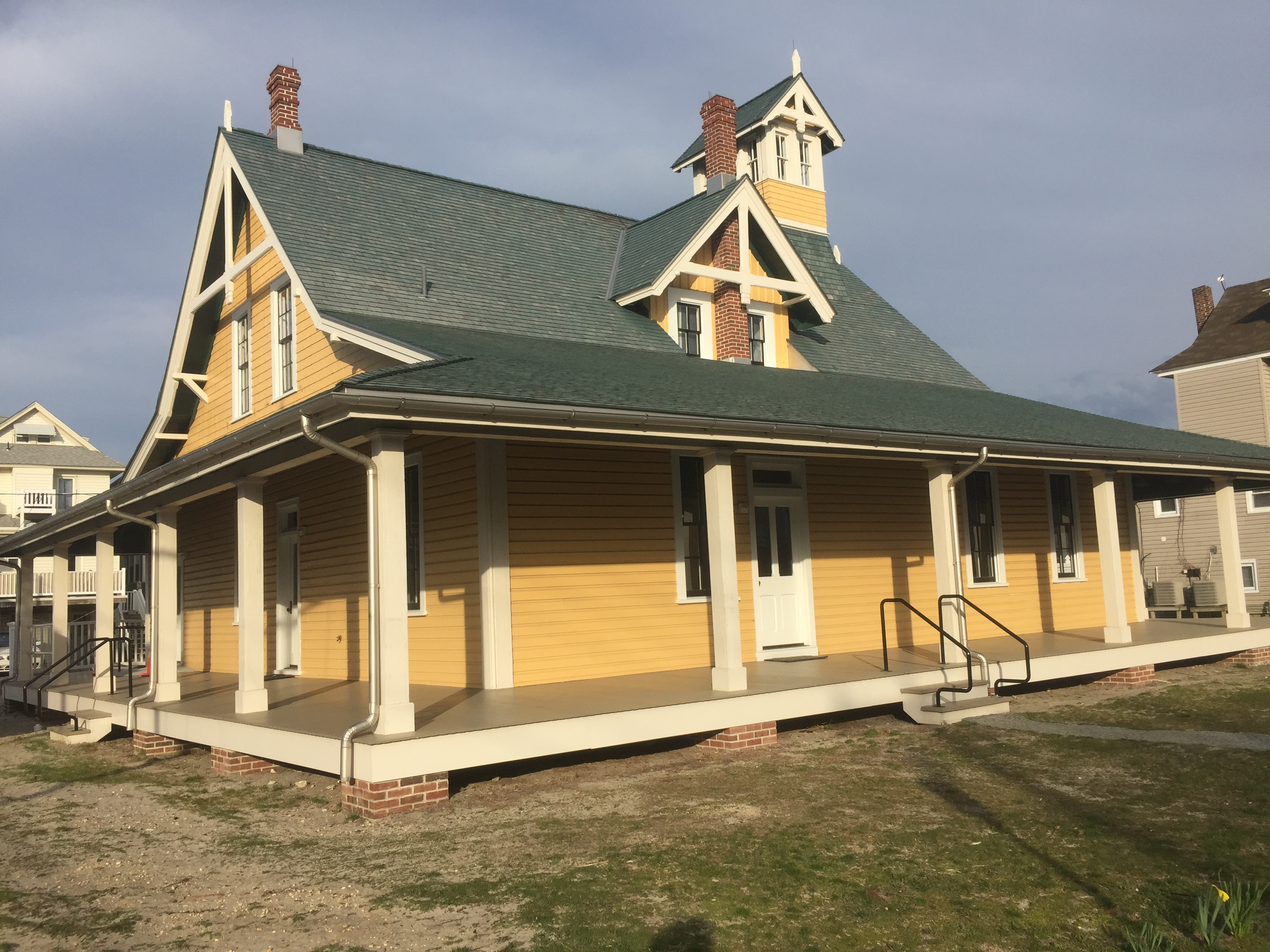 Image of the newly renovated Ocean City (New Jersey) Life-Saving Station, built in 1886 at the corner of 4th Street and Atlantic Avenue